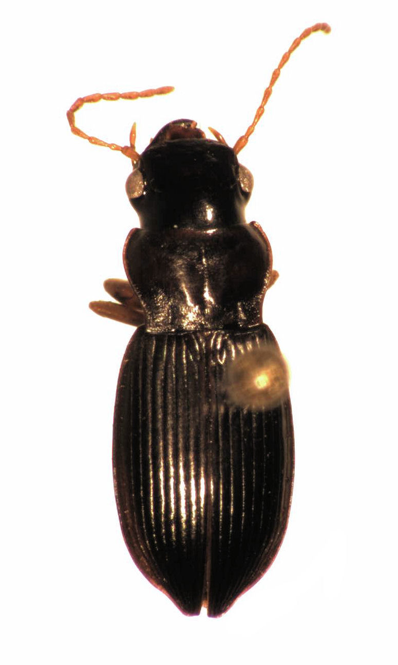 adult male Allocinopus sculpticollis